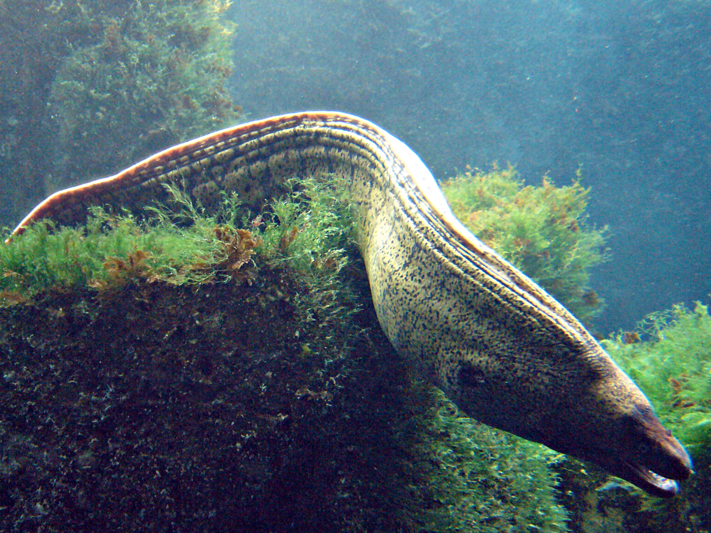 Muraena helena (Moray eel) in Sala Maremagnum of Aquarium Finisterrae (House of the Fishes), in Corunna, Galicia, Spain.